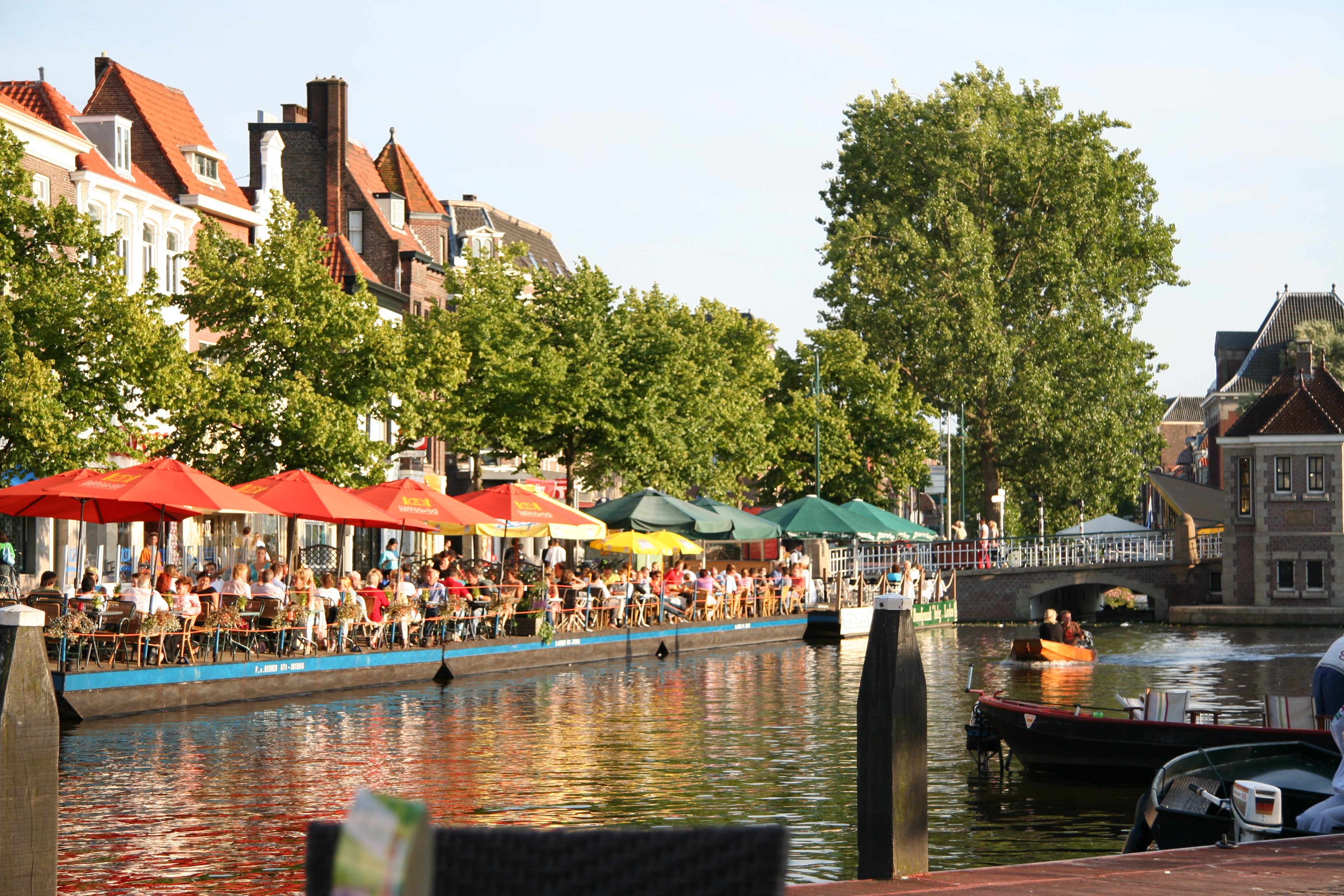 Terrace boats at Turfmarkt, Leiden